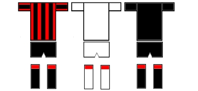 Chabab Mohamedia all kits